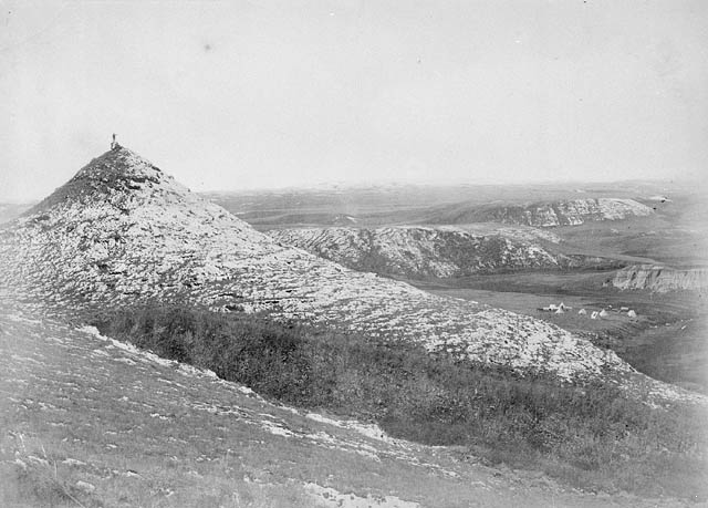 Pyramid and surrounding country about 400 miles West of Red River. Capt. Featherstonhaugh's camp is seen at the base of the pyramid.